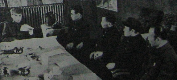 Dongbei Ju leaders having a military conference in Harbin.东北局领导在哈尔滨召开军事会议。左起：林彪、高岗、陈云、张闻天、吕正操。